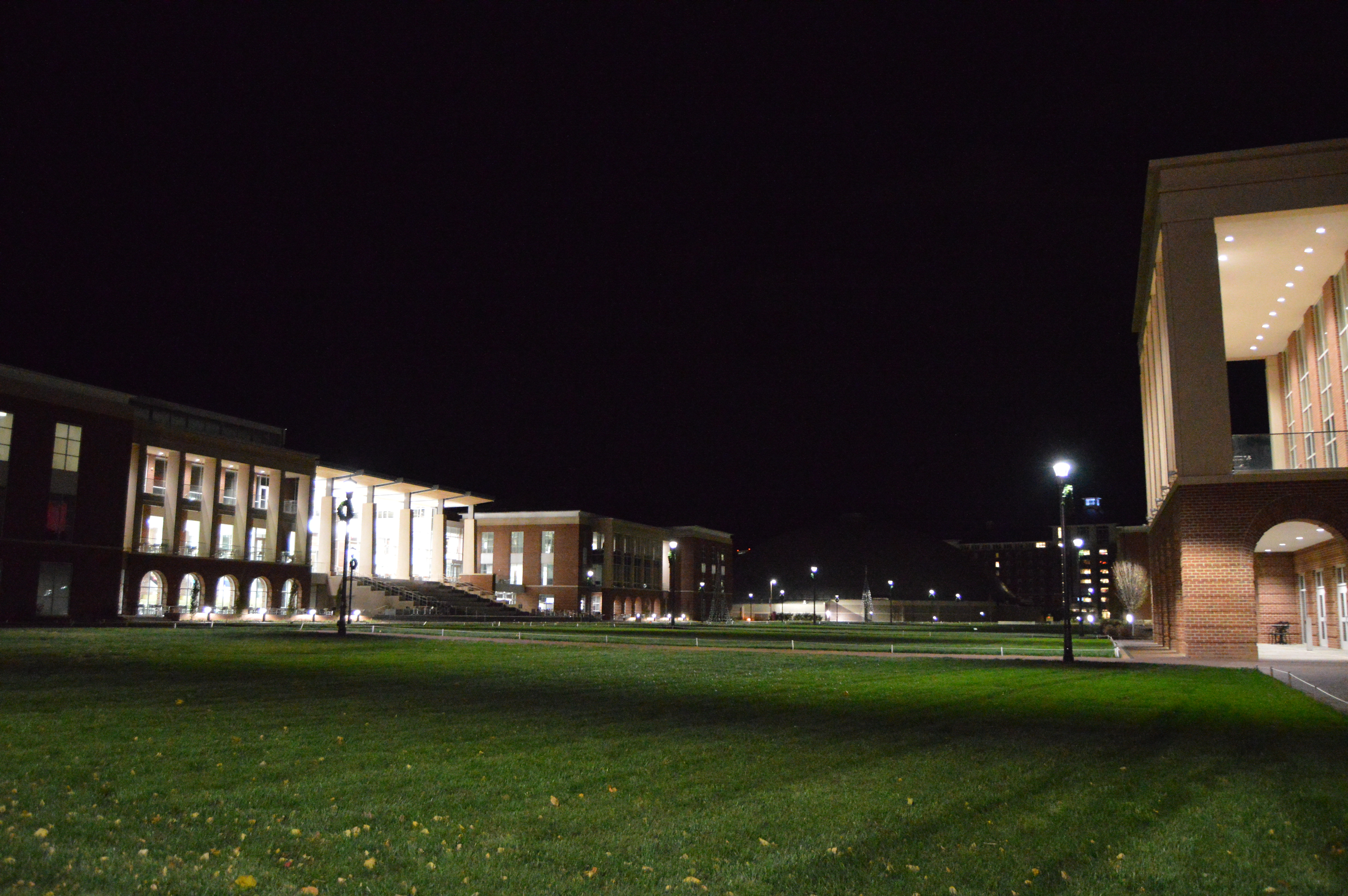 Night view of the central plaza at Liberty University in Lynchburg, Virginia, United States. At left is the Montview Student Union, the unilluminated golfball-shaped building in the middle is the Vines Center, and Science Hall is visible at the right. Even at night, the campus is typically busy; it is here deserted because most students are gone on Thanksgiving break.